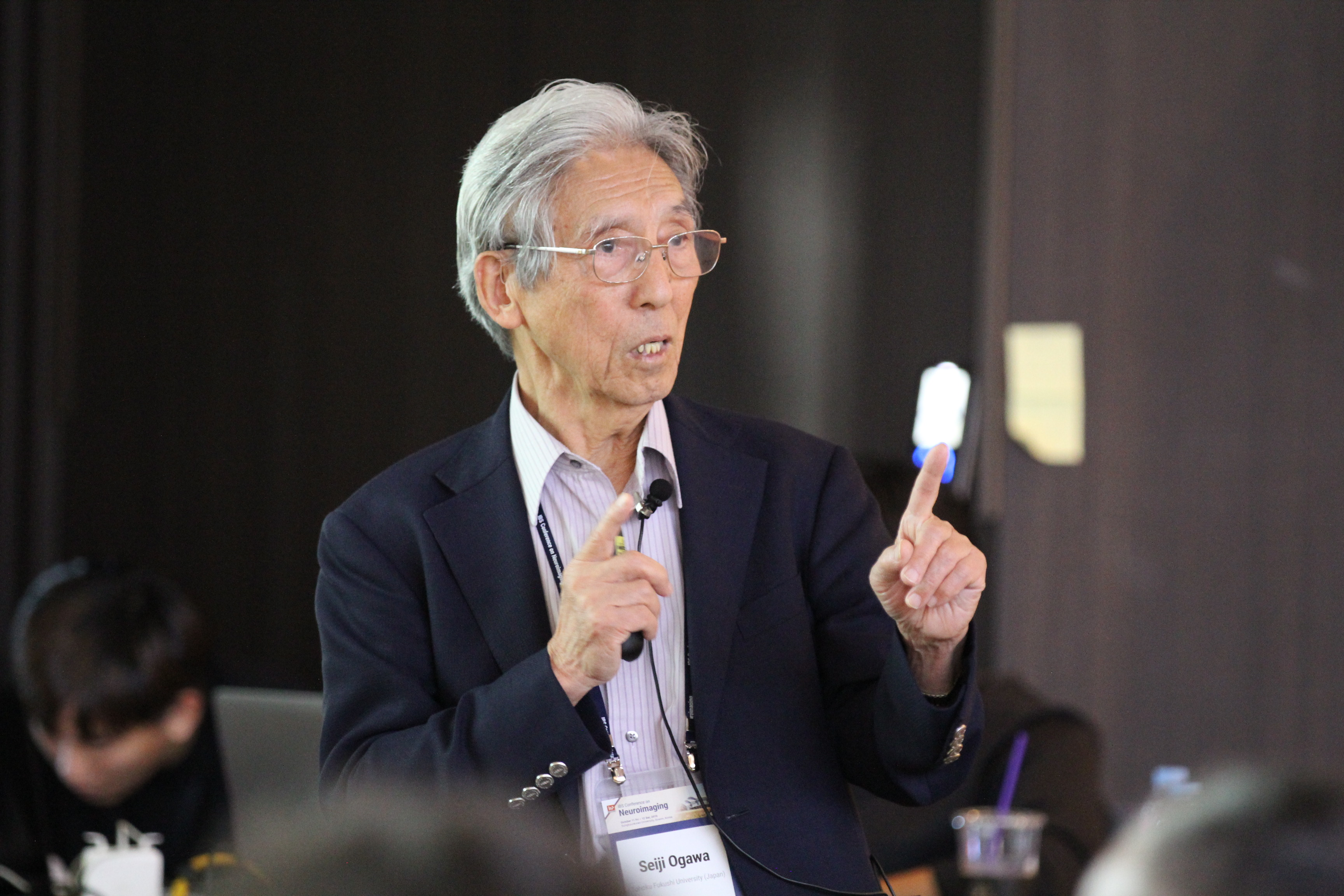 Researcher Seiji Ogawa giving a speech at the IBS Conference on Neuroimaging held at Sungkyunkwan University, Suwon, South Korea.